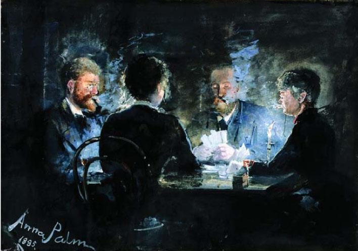 The painting shows a card game at Brøndom's Hotel, in Skagen, Denmark, with P.S. Krøyer (left), Degn Brøndum, and the Swedish painter Julia Stömberg. Palm spent the summers of 1884 and 1885 in Skagen with the Skagen Painters.